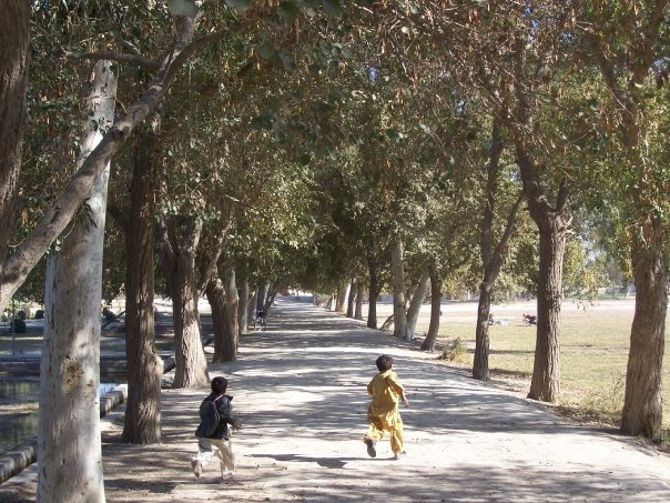 Gardens in Jampur